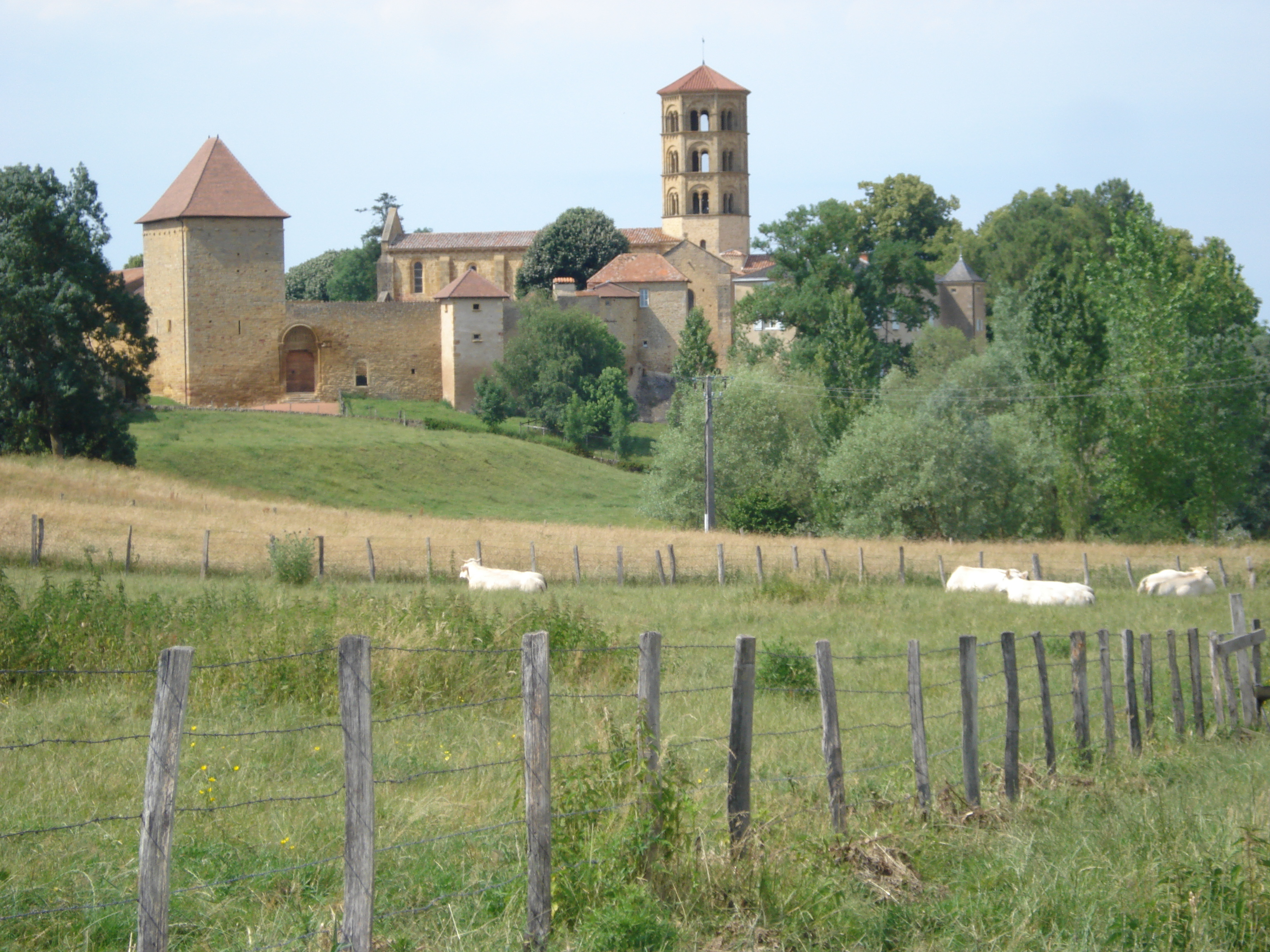 Anzy-le-Duc (Saône-et-Loire), view from the south.